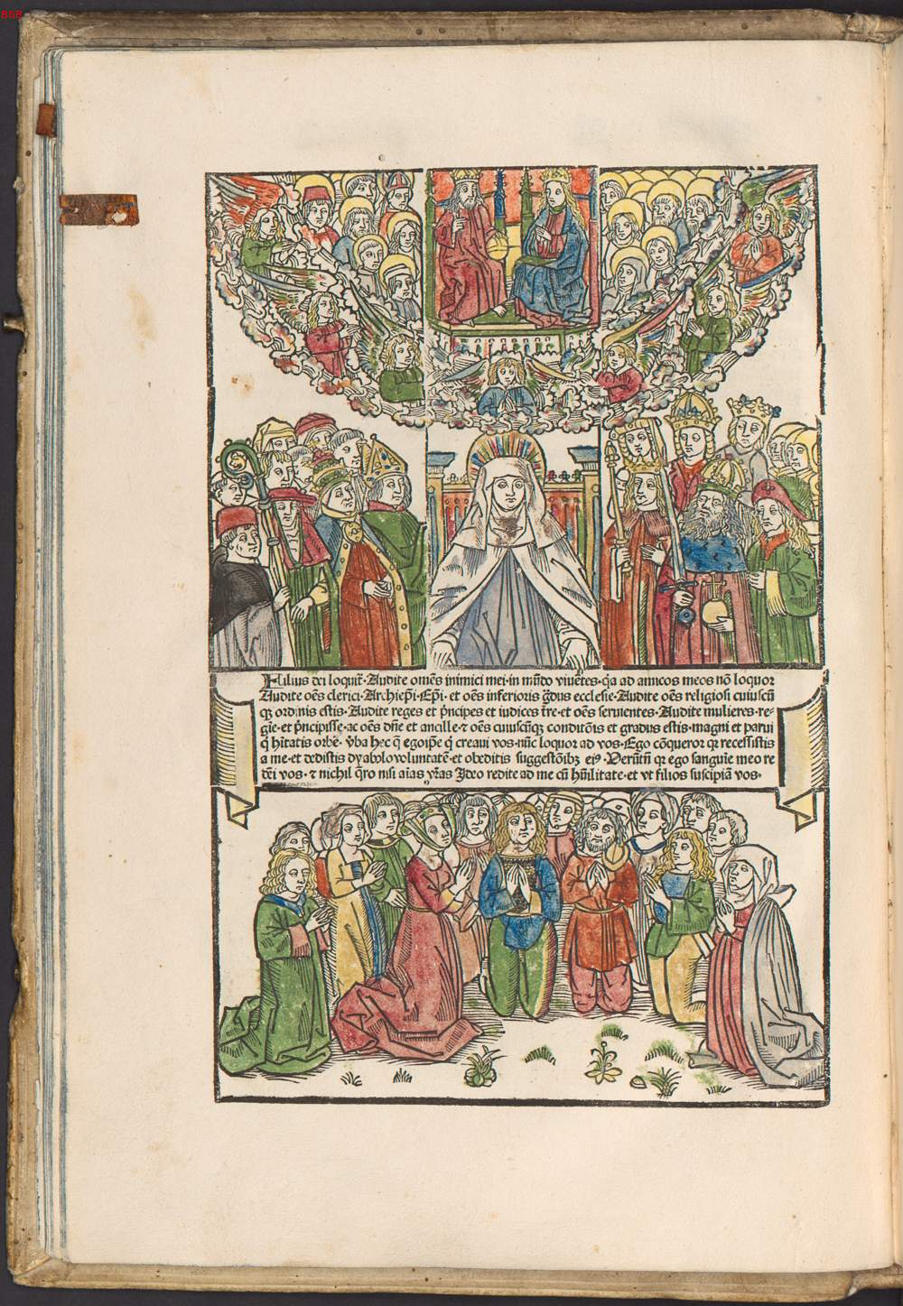 scan of page from Birgitta / Petrus / Matthias : Revelationes caelestes, mit Vita abbreviata sanctae Birgittae, Inhaltsverzeichnis, Tabula und Bittgebet zur hl. Birgitta, Lübeck: Bartholomäus Ghotan [vor 11.25.]1492 [BSB-Ink B-530 GW 4391]